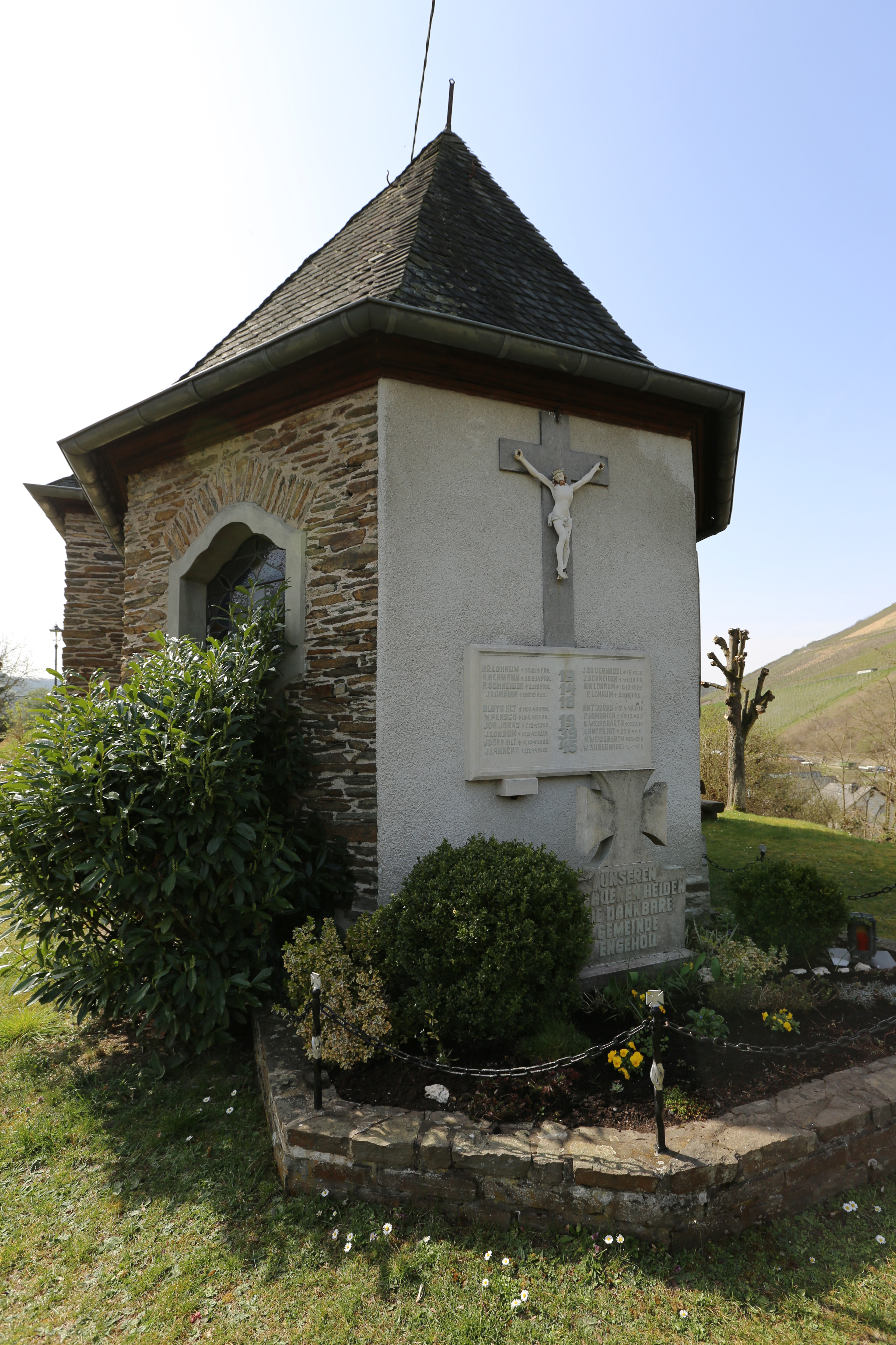 Chapel Our Lady of Sorrows, Roman Catholic Church (branch church) – Filialkirche zur Schmerzhaften Muttergottes – Am Kapellenberg, quarrystone aisleless church built 1923–1925. Engehöll (Oberwesel), Rhineland-Palatinate, Germany